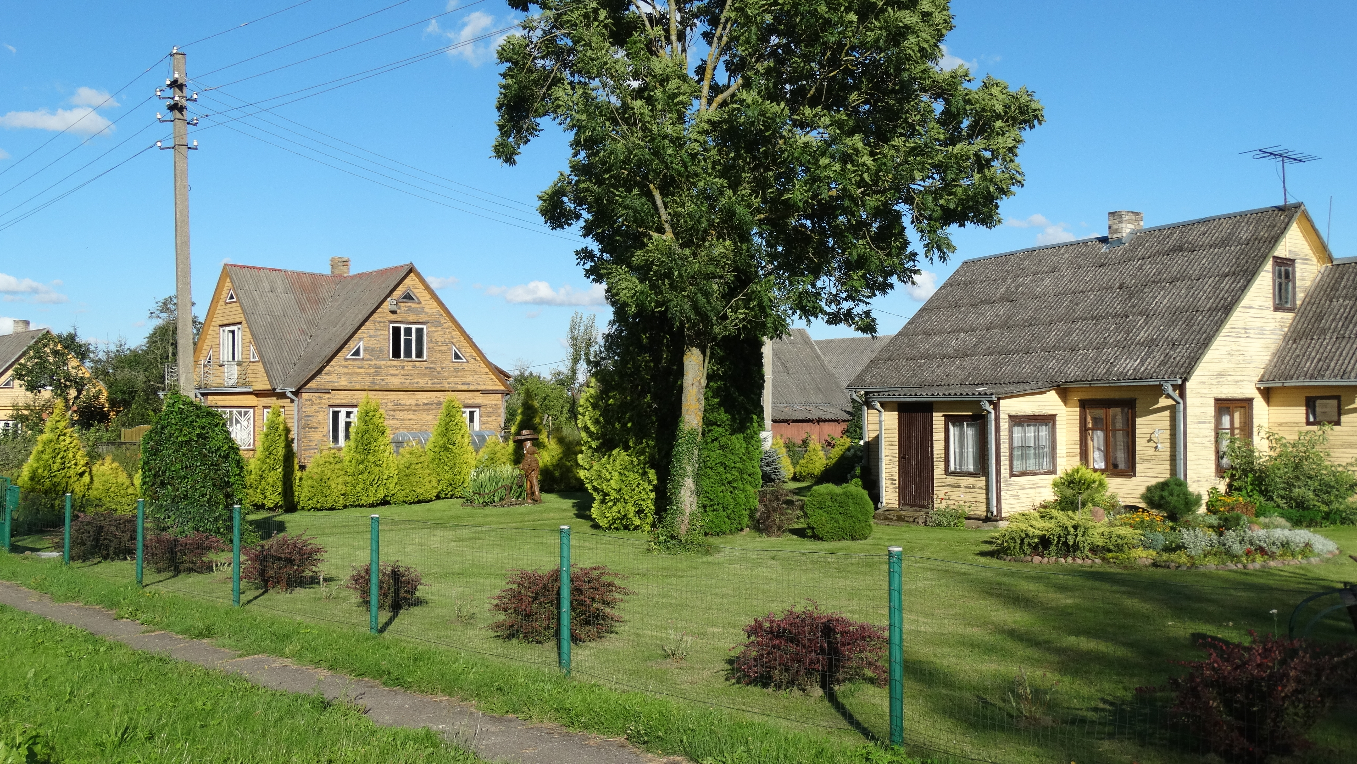 Padauguva, Kaunas district, Lithuania